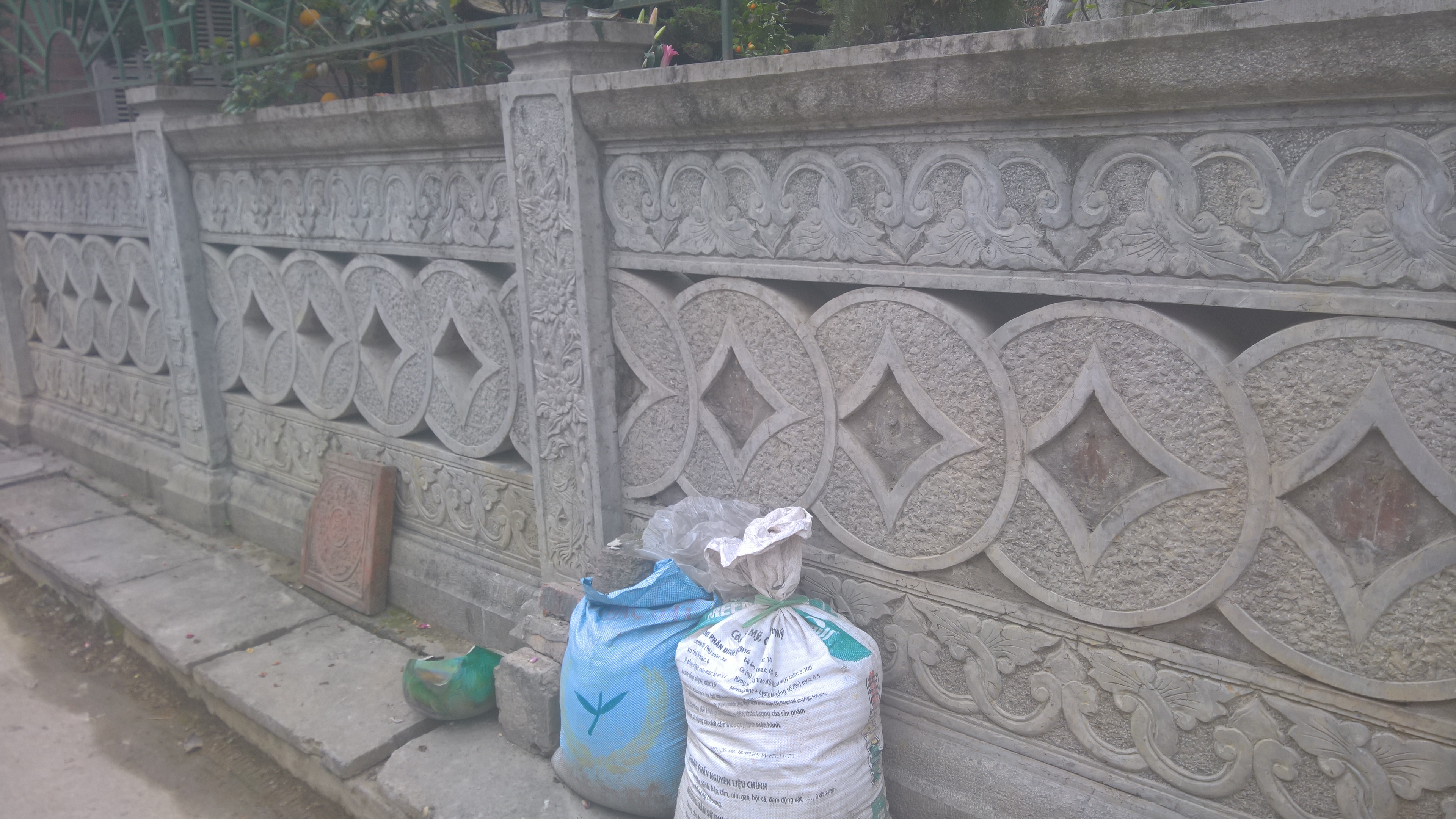 The walls of a temple ⛪ carved with imitations of cash coins to bring "good luck 🍀" and supposed prosperity.